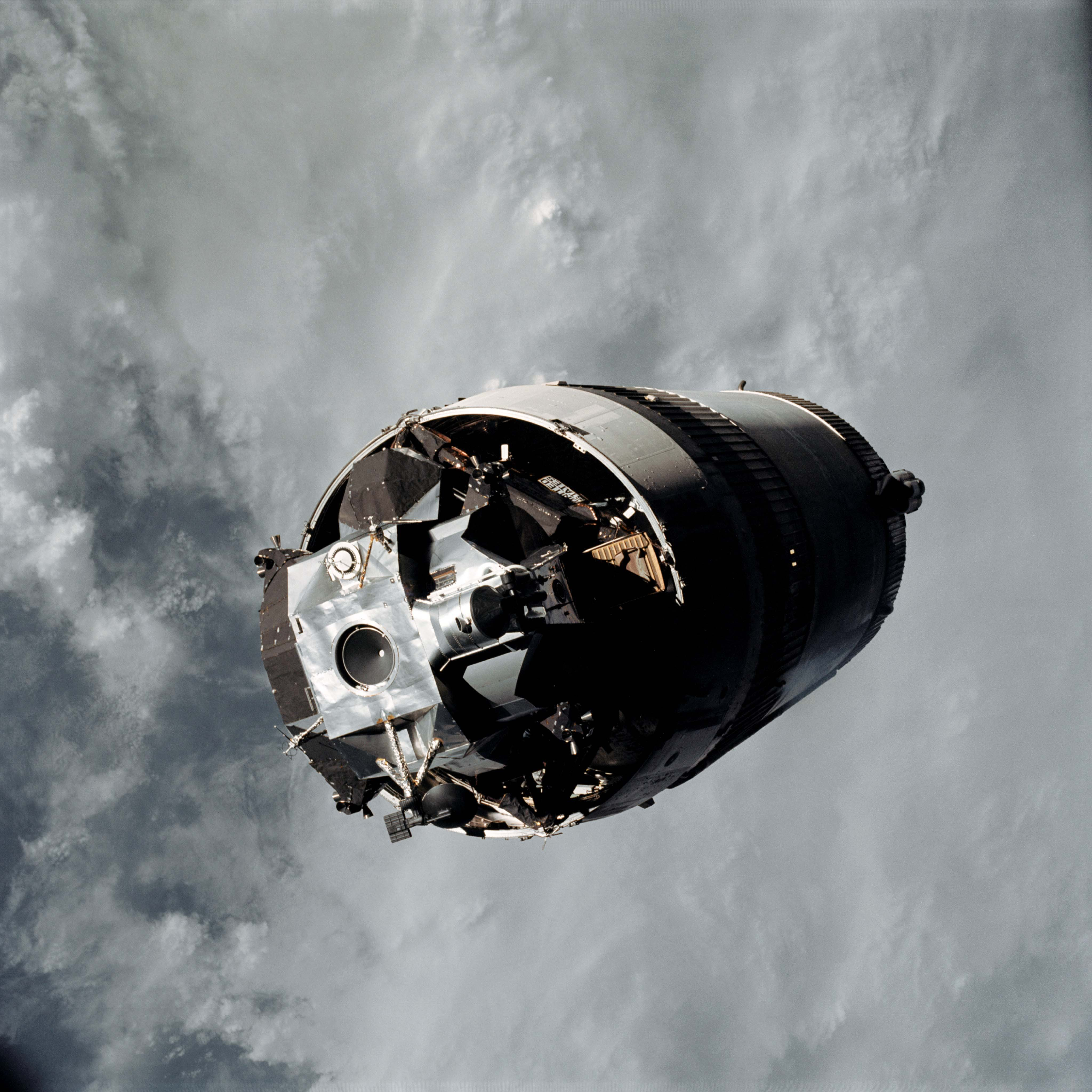 The Lunar Module “Spider,” remains attached to the Saturn IVB stage in earth orbit prior to docking with Apollo 9’s Command/Service Module, “Gumdrop.” The photo was taken following separation of the CSM from the S-IVB stage, and the Spacecraft Lunar Module Adapter (SLA) panels have already been jettisoned. Following a March 3, 1969 launch, Apollo 9’s crew of James McDivitt, Dave Scott, and Rusty Schweickart spent 10 days testing the Lunar Module and Command and Service Modules in Earth orbit. Apollo 9 was the first mission to dock the CSM with the LEM, and the astronauts paved the way for subsequent flights to the moon with the CSM and the LEM.